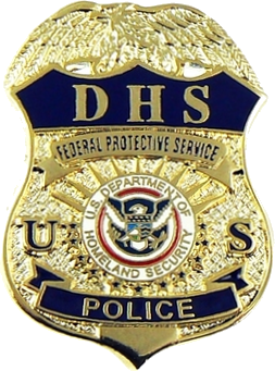 Badge of the US Federal Protective Service